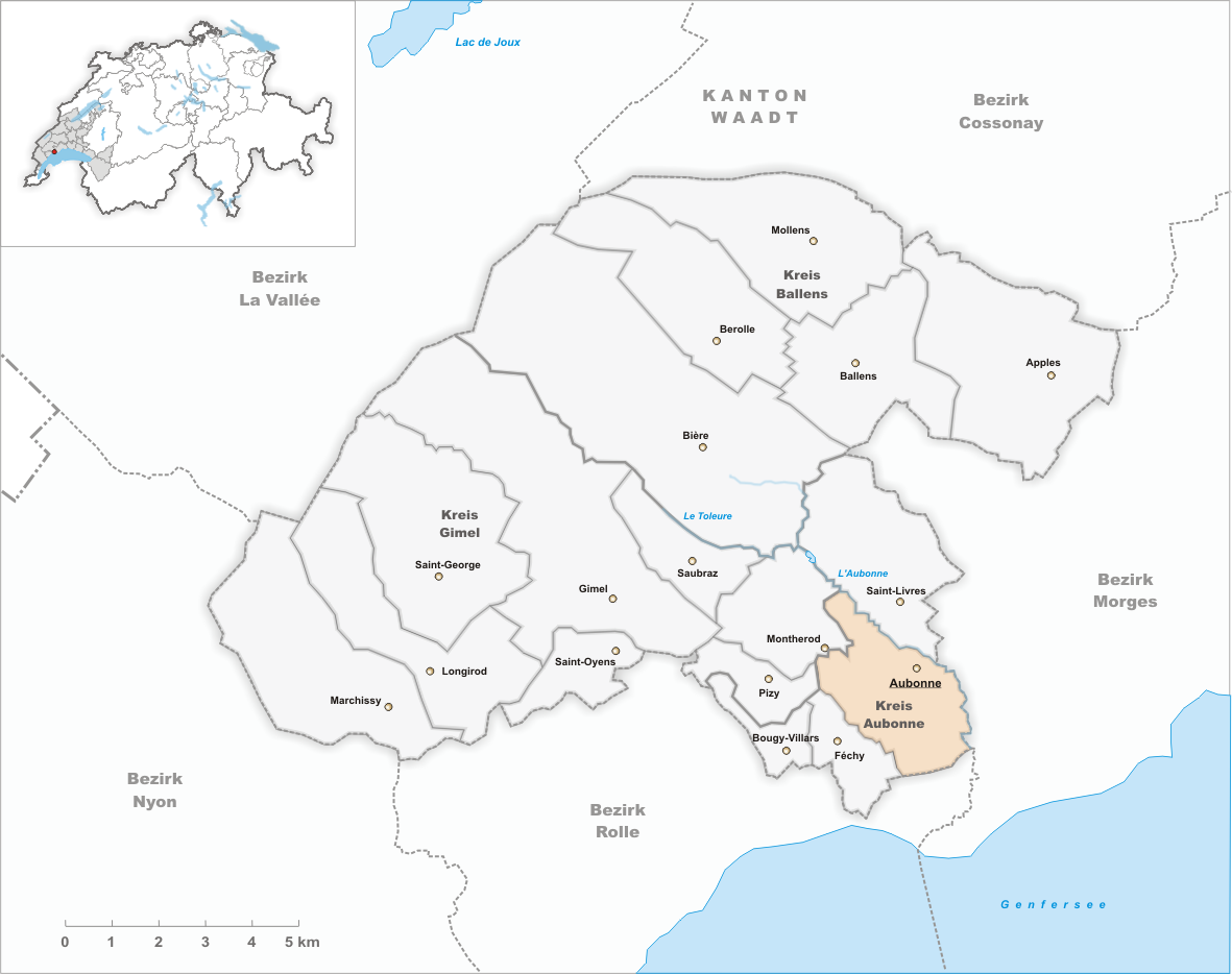 Municipality Aubonne